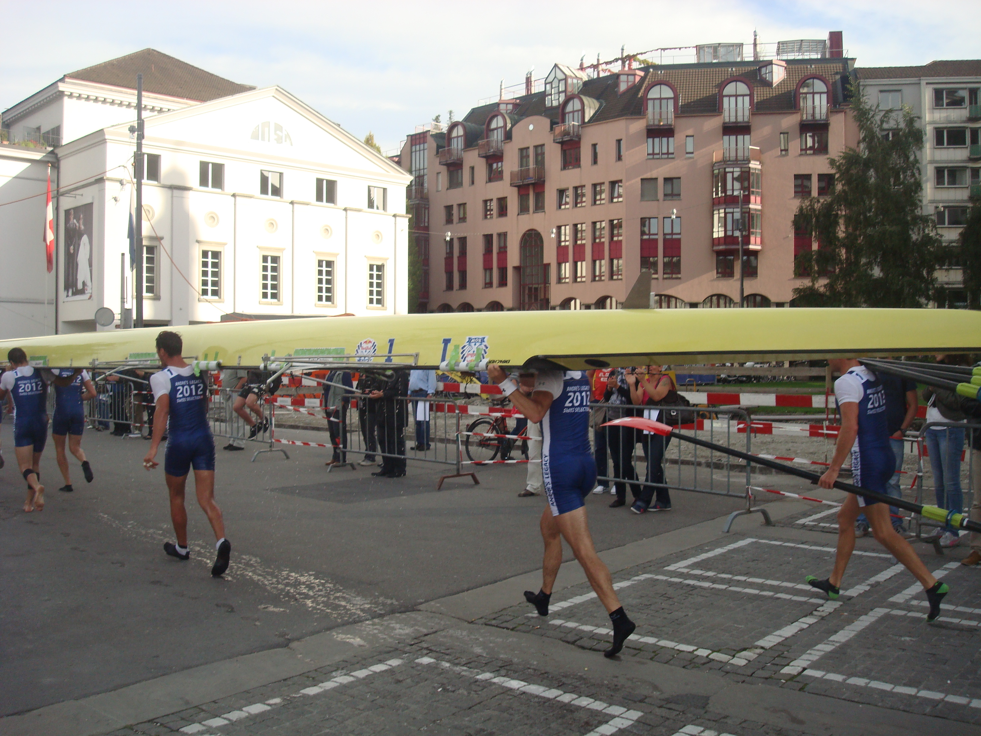 Switzerland Selection